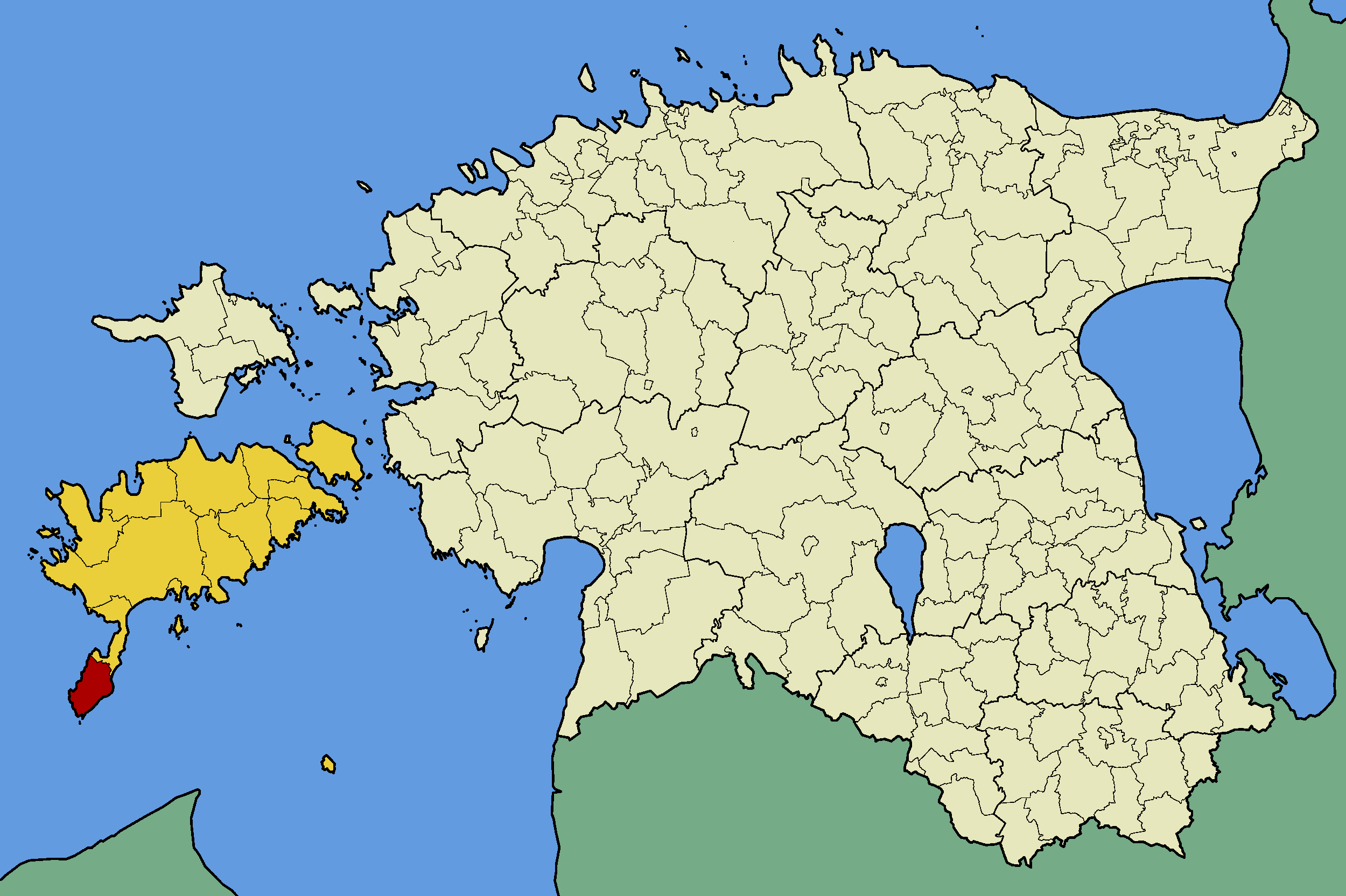 Map of Estonia with borders of municipalities (parishes). Saare county and Torgu municipality emphasized.